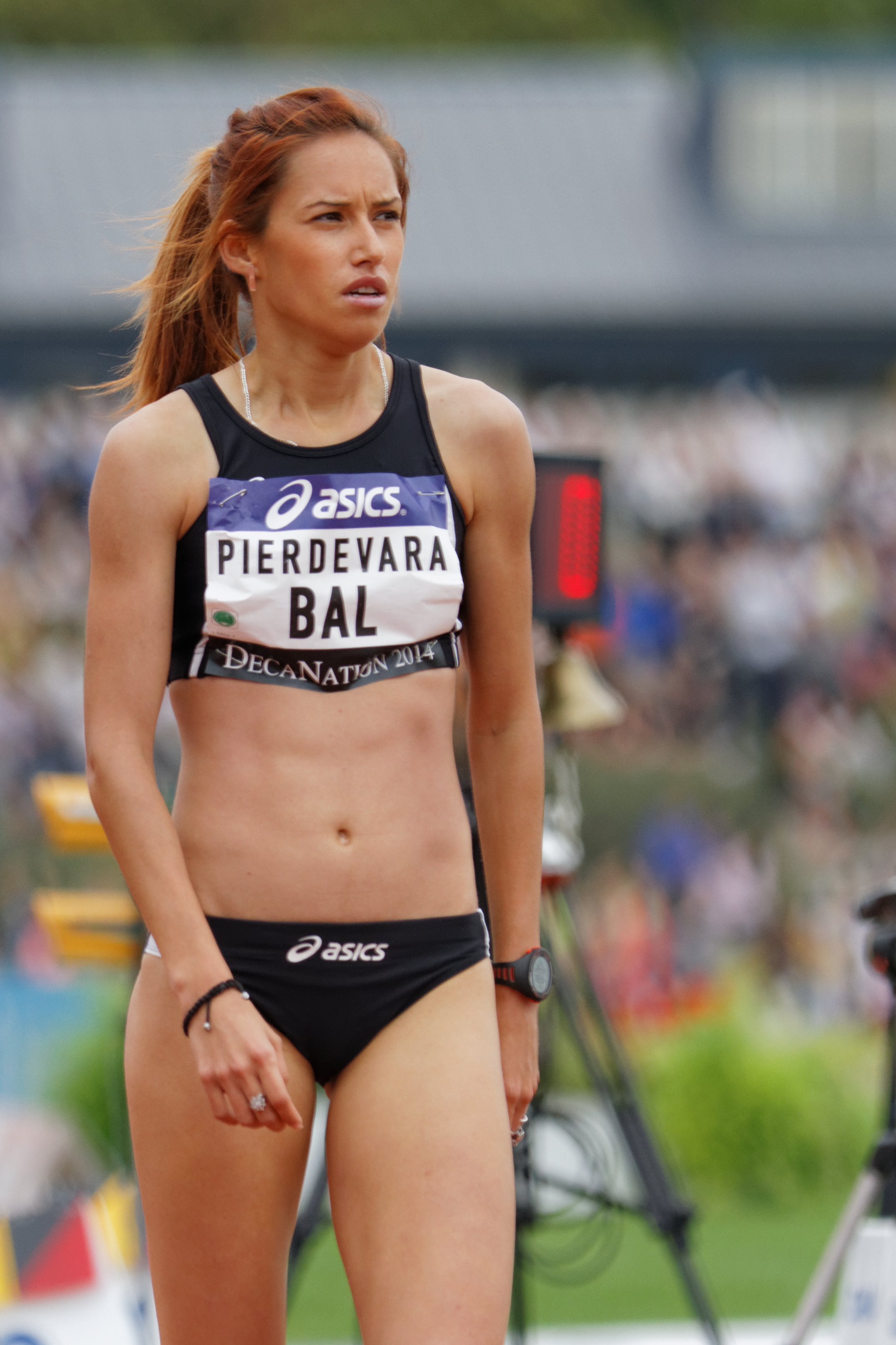 Florina Pierdevara competing at the DécaNation 2014 in the 1500m.